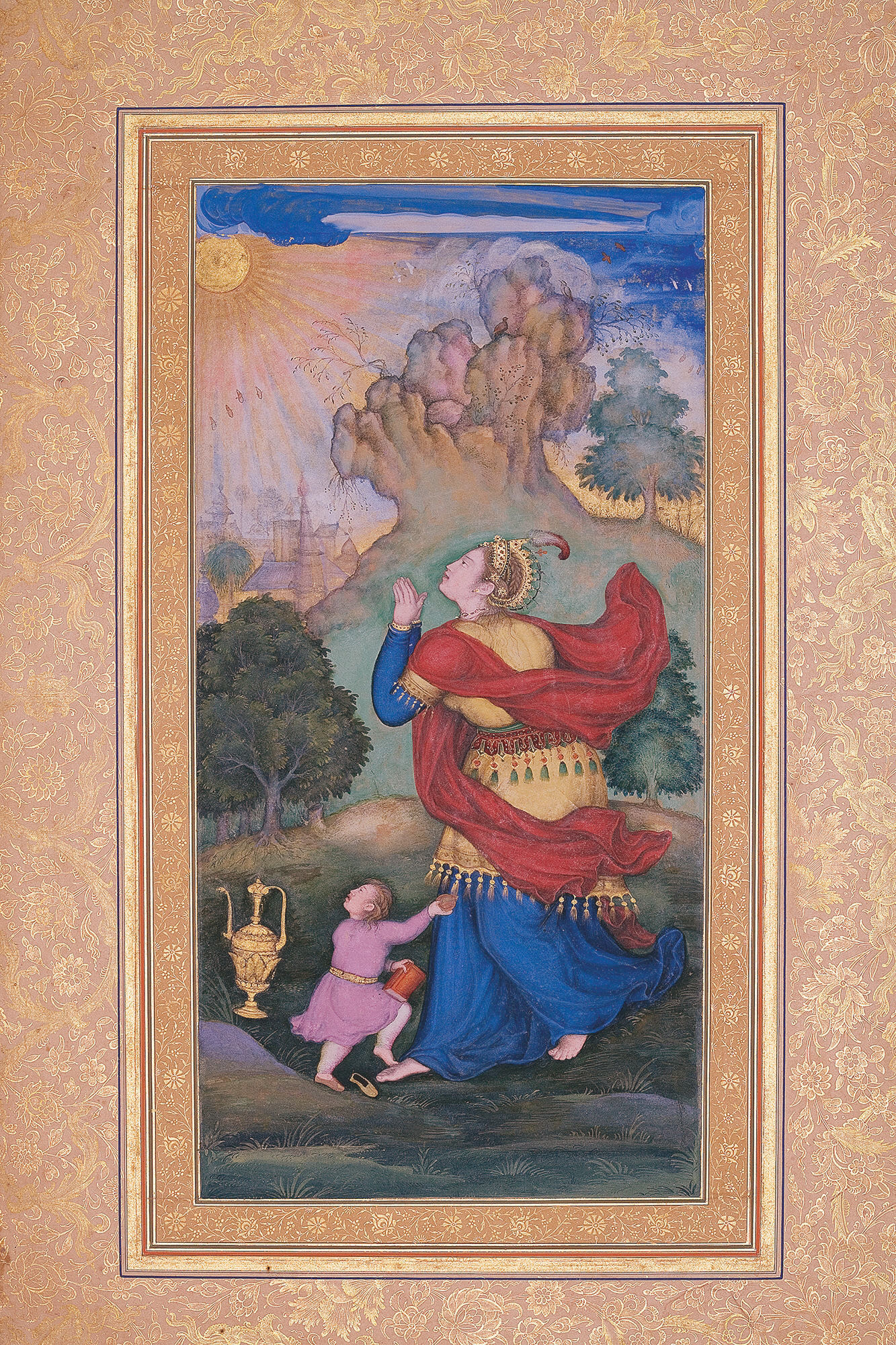 Basawan (attributed). Woman Worshiping the Sun Page from the Gulshan Album. 1590-95 Museum of Islamic Art, Do